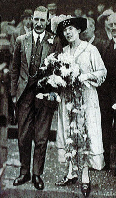 Marriage of Abe Mitchell and Dora Deag